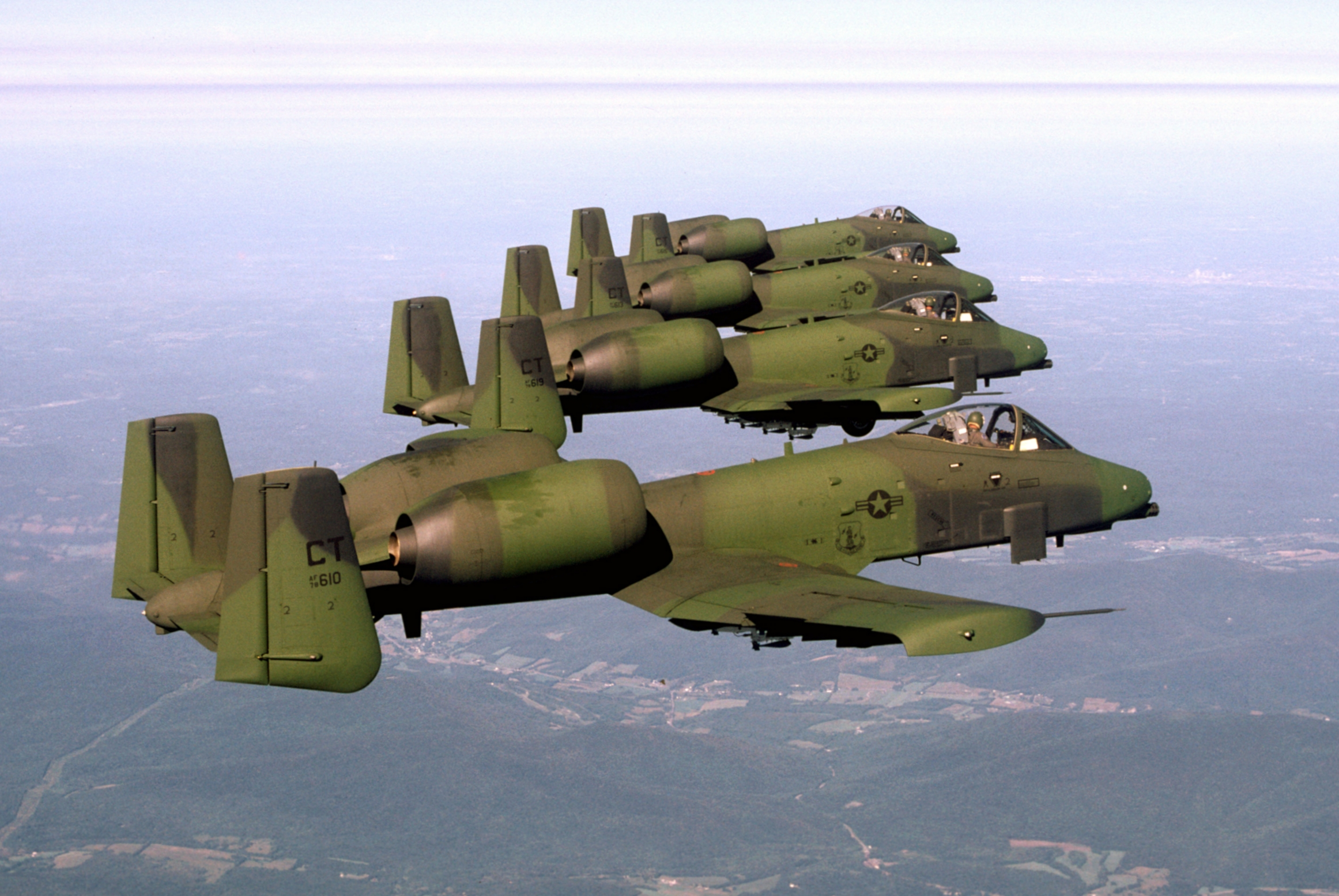 Four U.S. Air Force Fairchild Republic A-10A Thunderbolt II from the 118th Tactical Fighter Squadron, 103rd Fighter Wing, Connecticut Air National Guard, in flight. The 118th TFS had just converted from the North American F-100D Super Sabre to the A-10A in 1979.